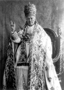 Pope Pius X. Official portrait taken shortly after his inthronisation in August 1903